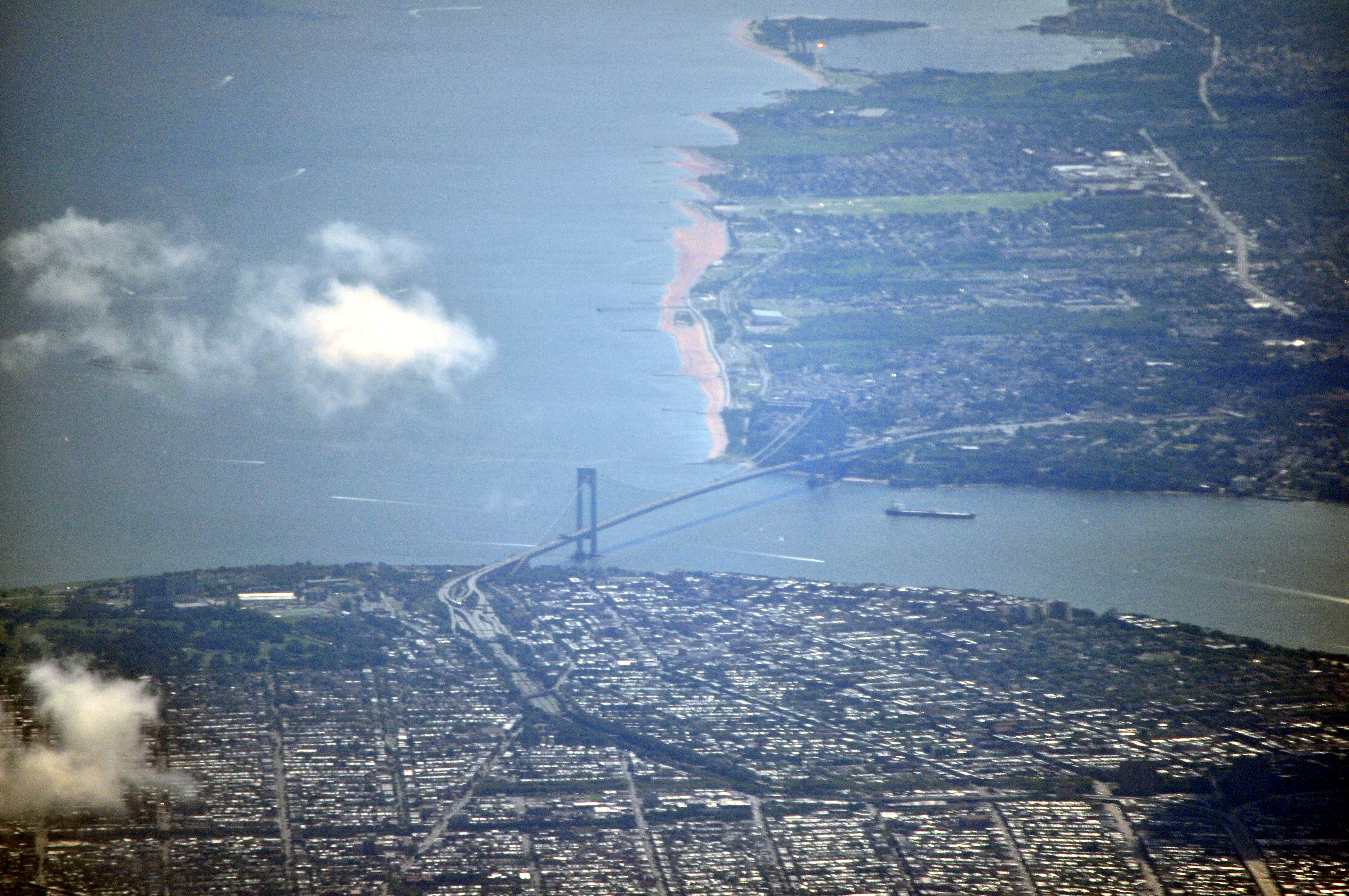 Aerial view of Verrazano-Narrows Bridge, NY from the north.